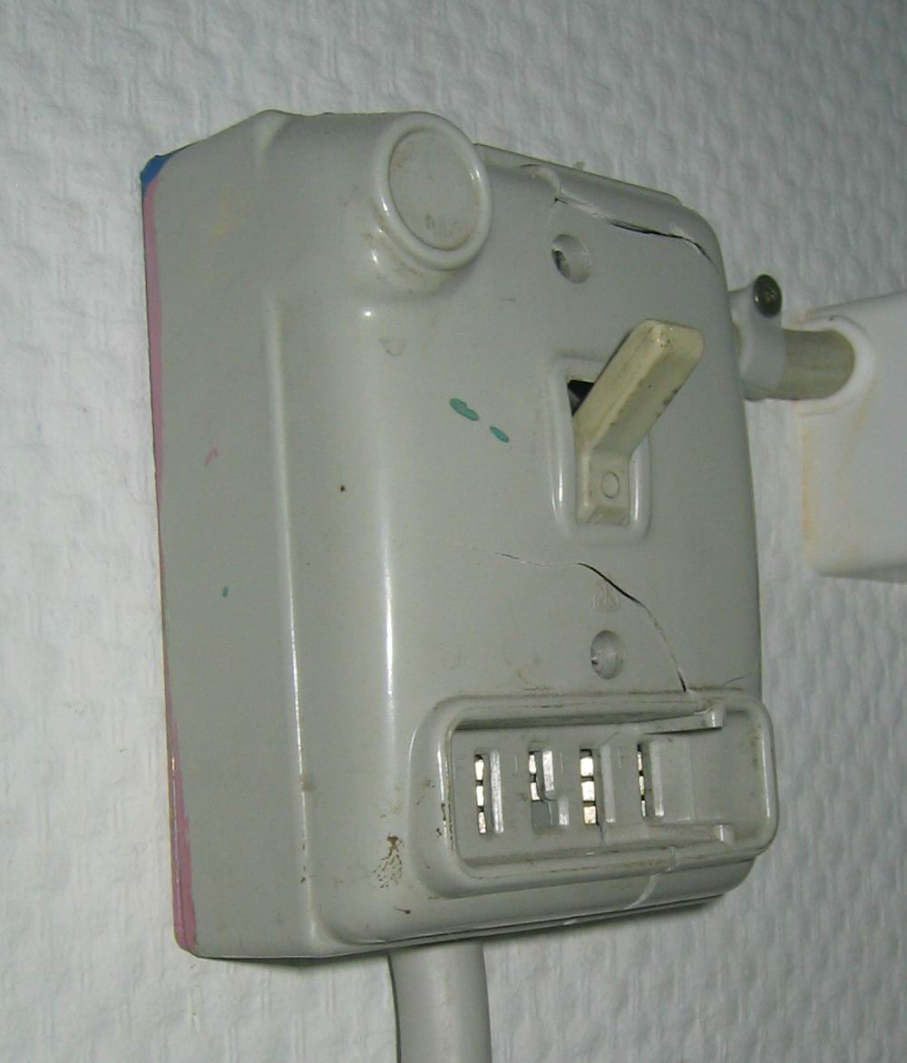 Special wall-mounted Danish 400 volt outlet